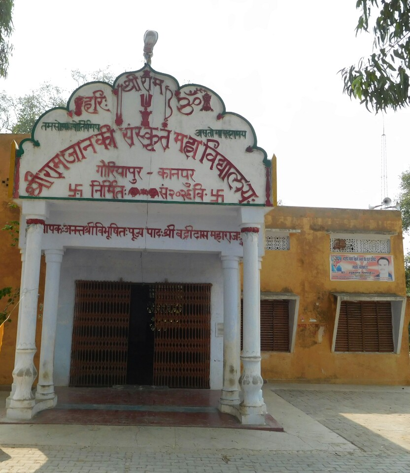 Shri Ram Janki Sanskrit Mahavidyalaya Gauriyapur ,Kanpur Dehat